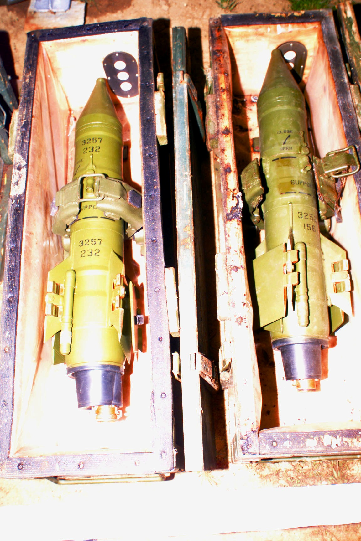 Weapons from a hidden cache found by Polish soldiers from POLUKRBAT (Polish-Ukrainian Battalion) stationed at Camp White Eagle after a cordon and search of the area surrounding Krivenic, Kosovo on March 31, 2001. Krivenic, Kosovo was hit by mortar fire on March 29, 2001 killing three civilians.